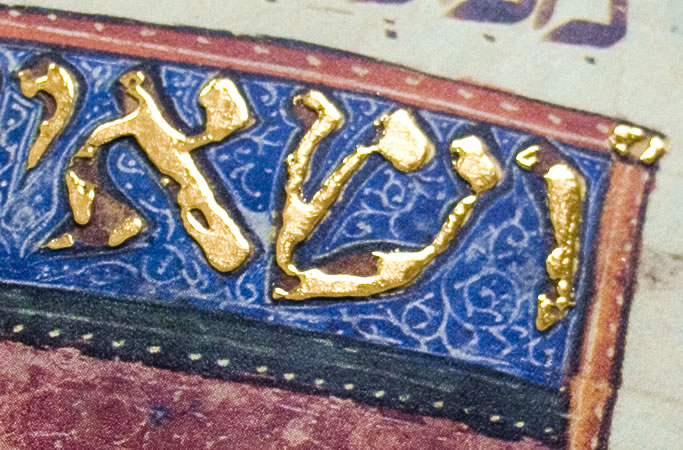 The Barcelona Haggadah. Over the centuries the gold has cracked and some has fallen away. Here you can see the raised gold of the facsimile, which reproduces the gilding in the original manuscript as it is today.